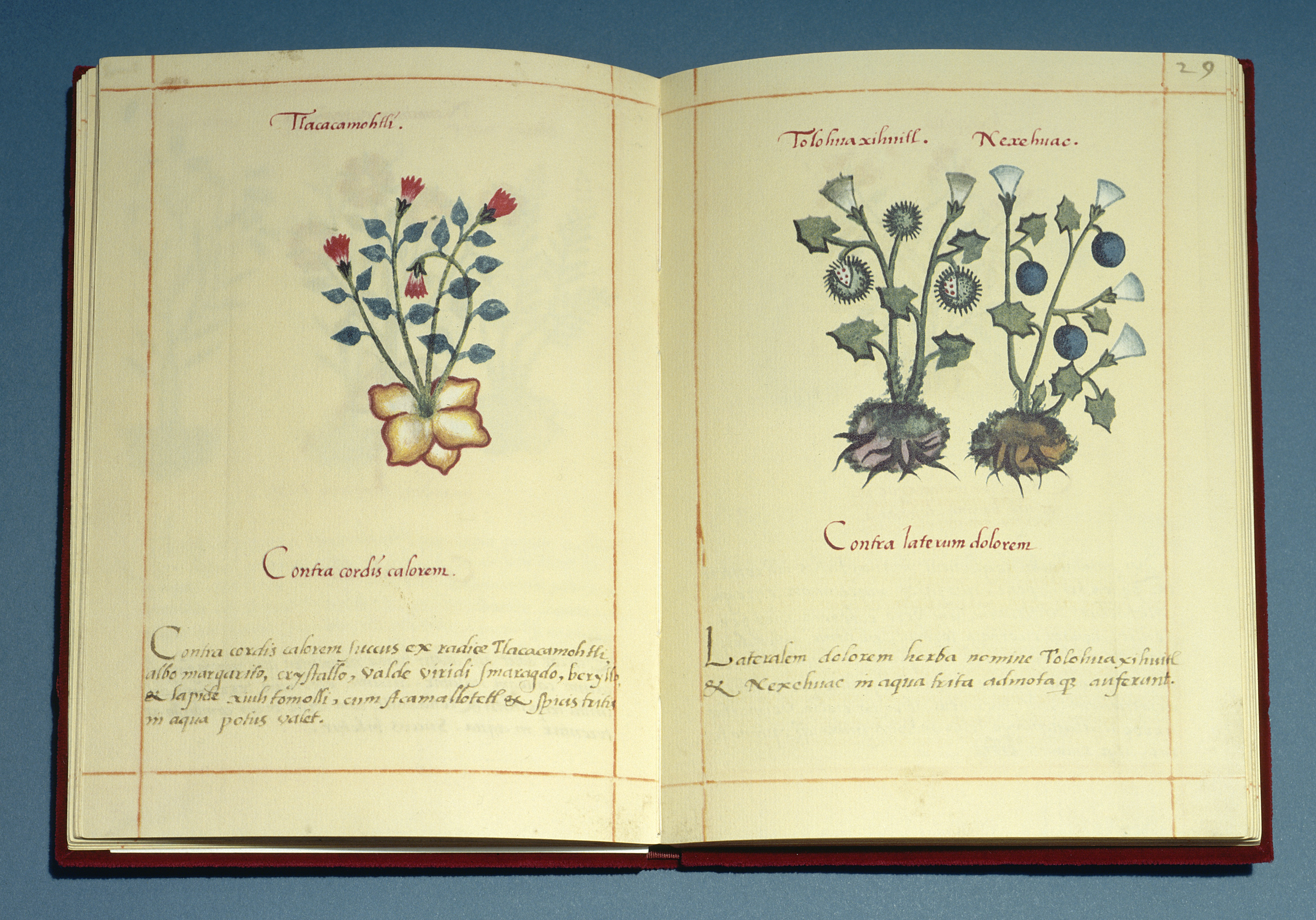 Badianus Codex, (facsimile), written in N huatl by the Aztec physician Martinus de la Cruz, translated by Juannes Badianus (latin), presented to the son of the first Viceroy of New Spain in 1552. Book open on fols. 28v and 29r. Wellcome Images Keywords: American Collections; Botany; Materia Medica